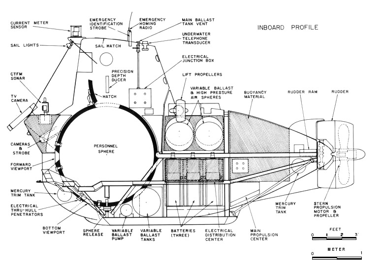 cut drawing of DSV Alvin